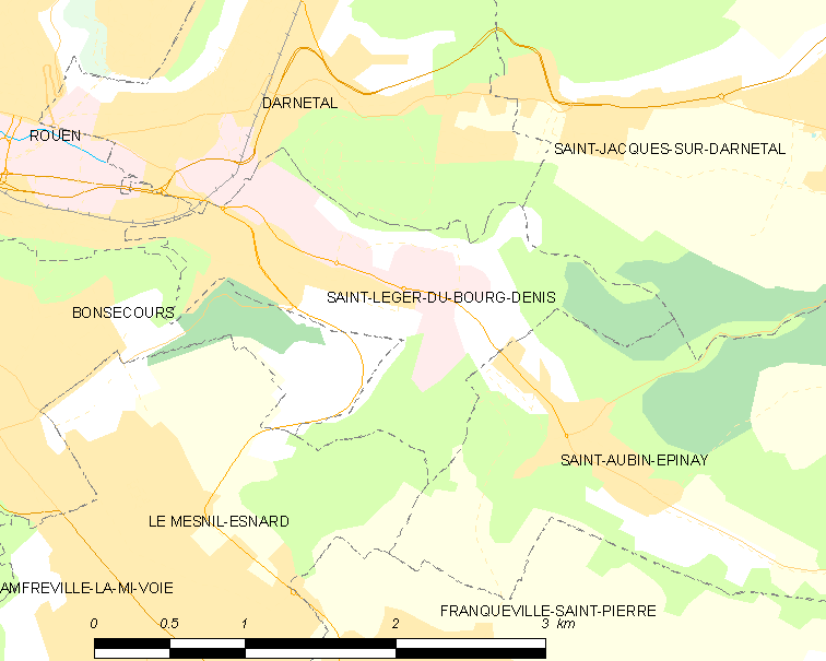 Map of French municipality Saint-Léger-du-Bourg-Denis